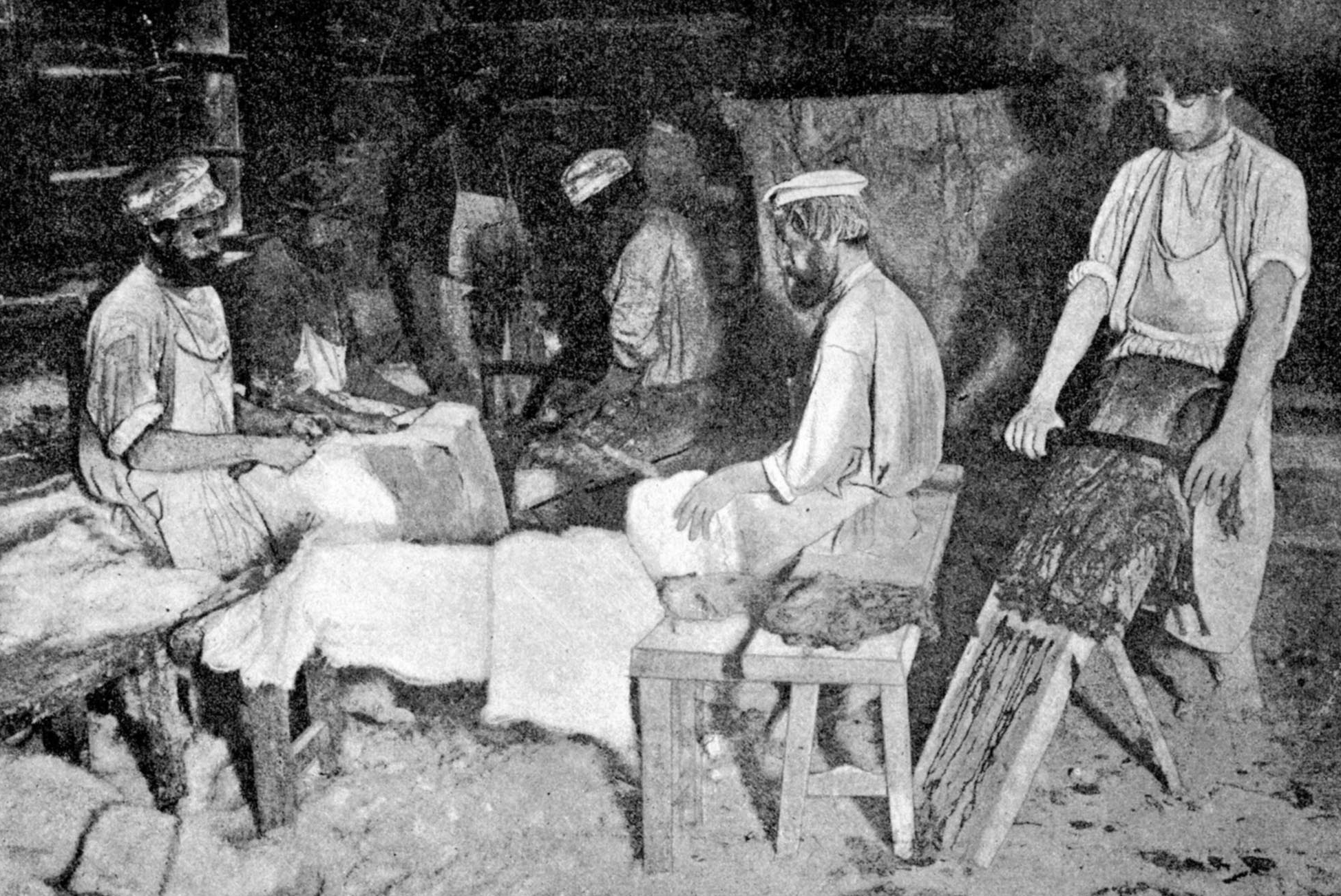 Handicraft Industry and Trades of Nizhegorodskaja gubernija. Arzsamas. XIX c.